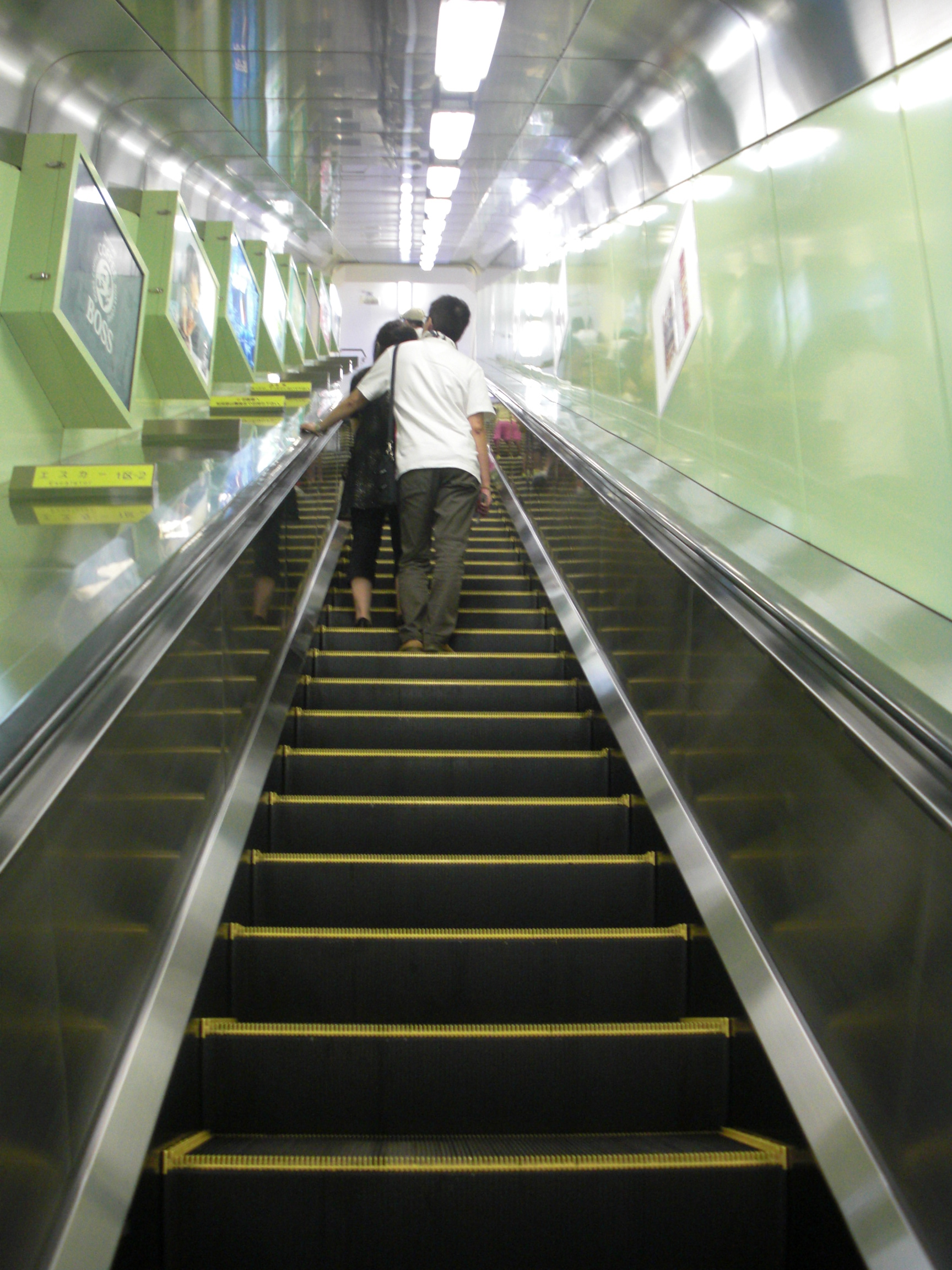 These are escalators called "Enonshima Escar".